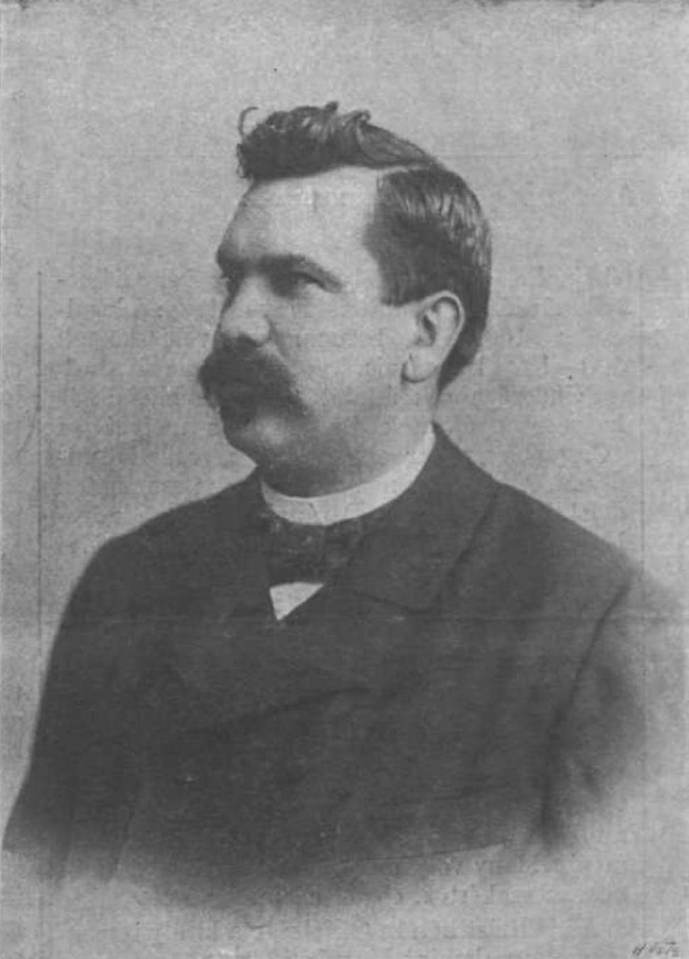 Imre Mészáros, manager.